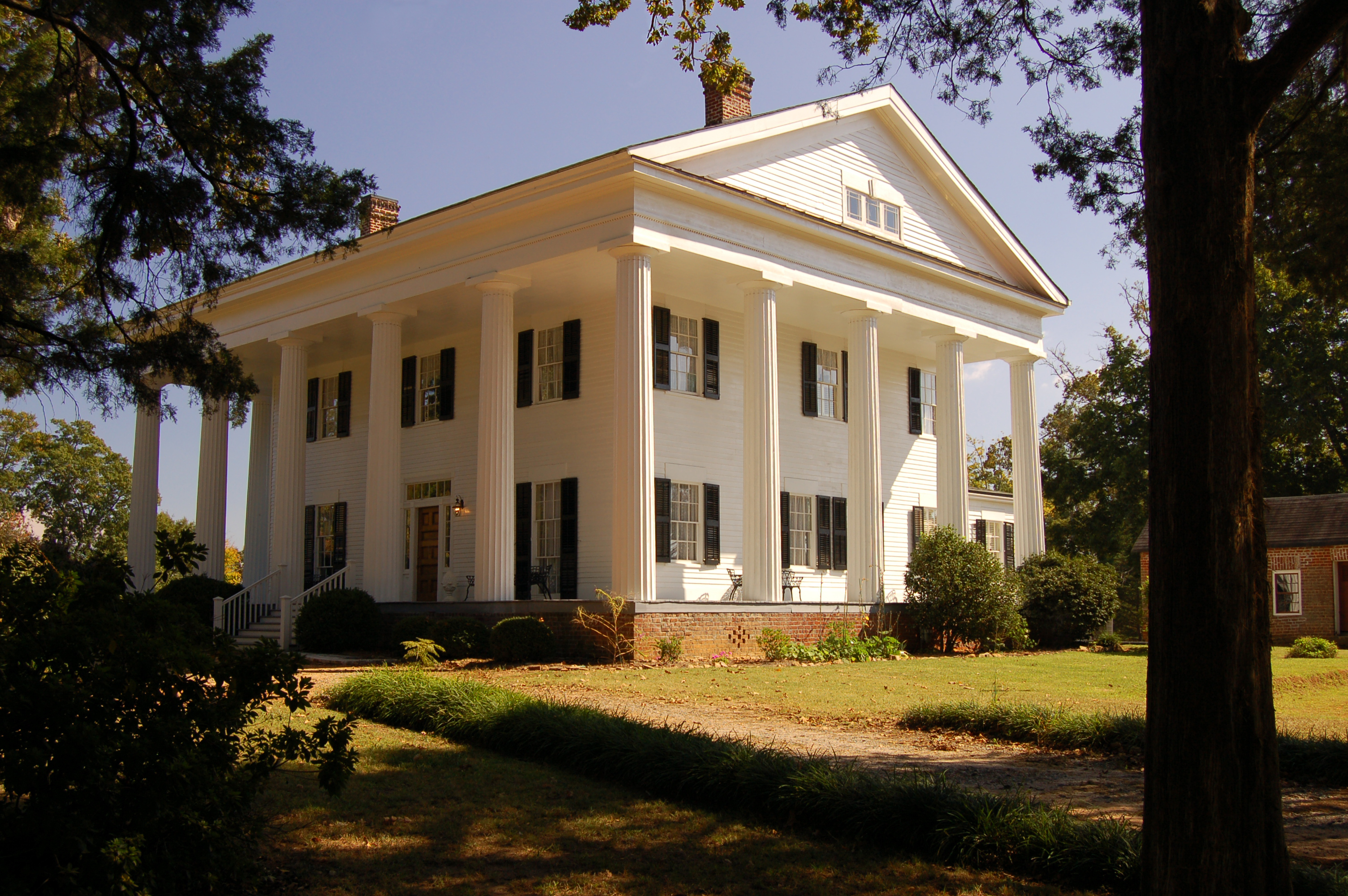 Barrington Hall, northwest corner, circa 1842 example of Greek Revival Temple Architecture, National Register of Historic Places, Roswell, Georgia, USA